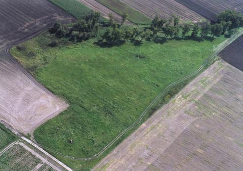 Bátmonostor, Hungary, aerialphotography